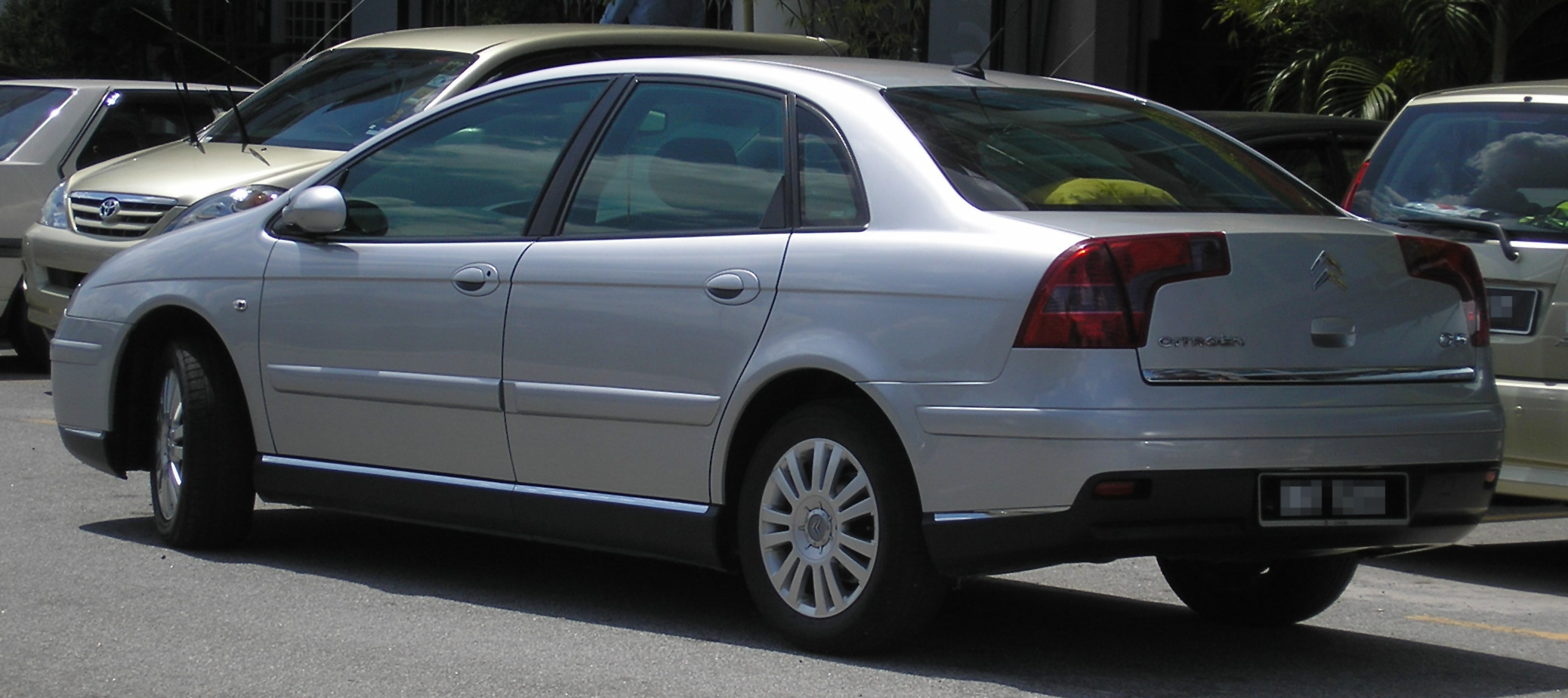 Rear-side shot of a first generation, first facelift Citroën C5, in Serdang, Selangor, Malaysia.